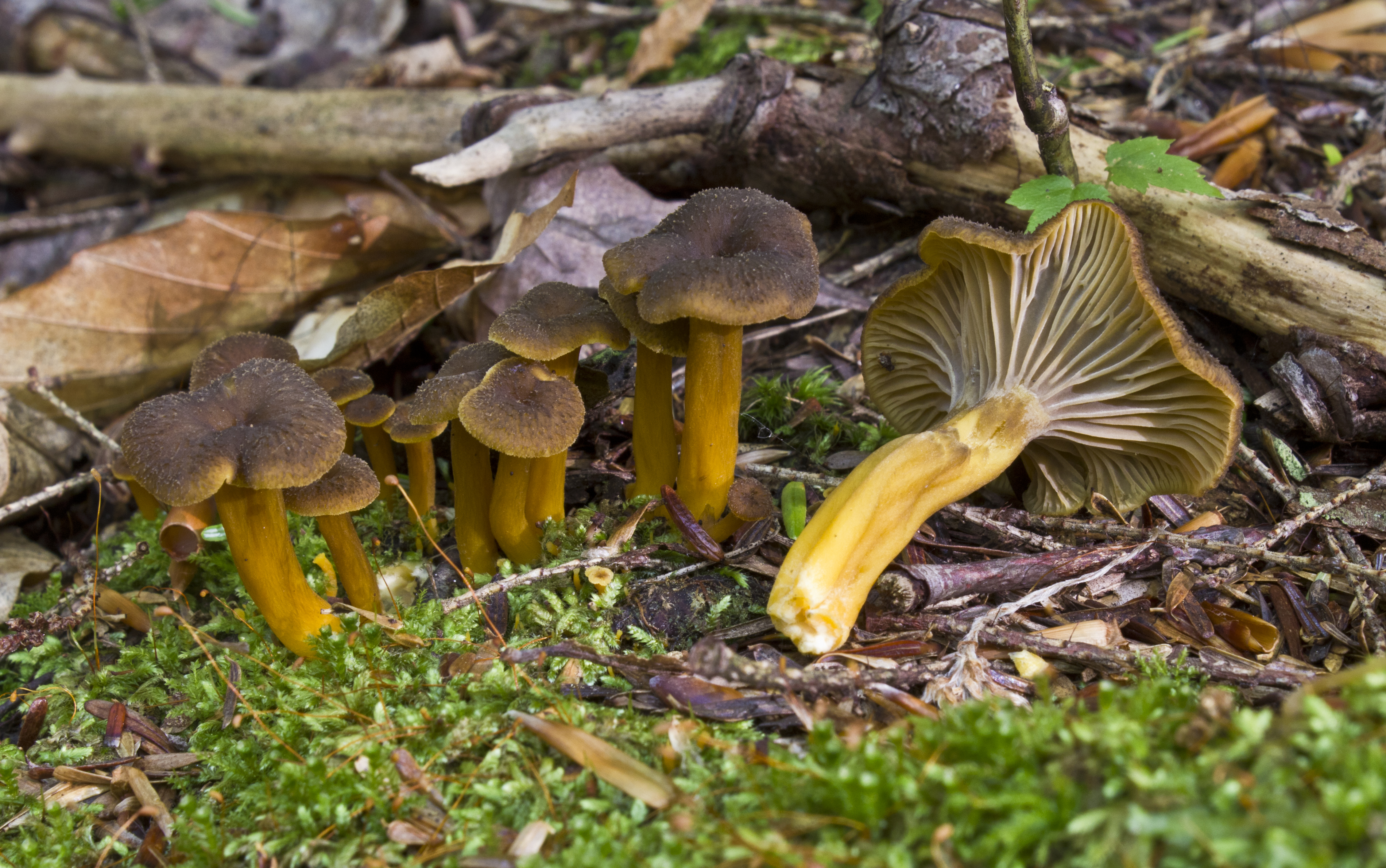 Craterellus tubaeformis (Bull.) Quél. Location: Oxford Co., Maine, USA For more information about this, see the observation page at Mushroom Observer.